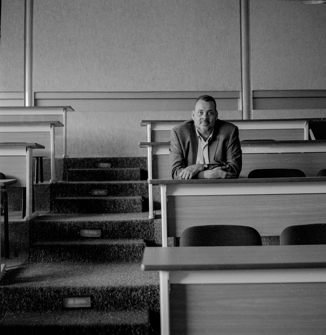 Portrait of Venezuelan historian Tomás Straka at the Andrés Bello Catholic University.